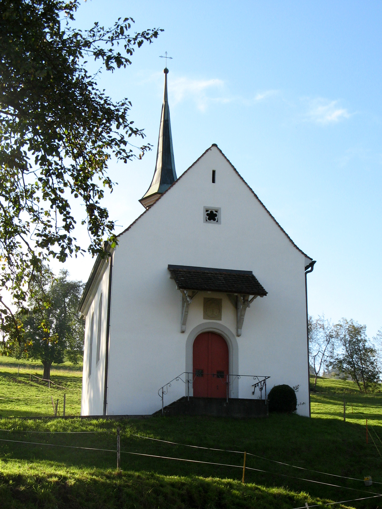 Front view of St Martin's Chapel in Boswil